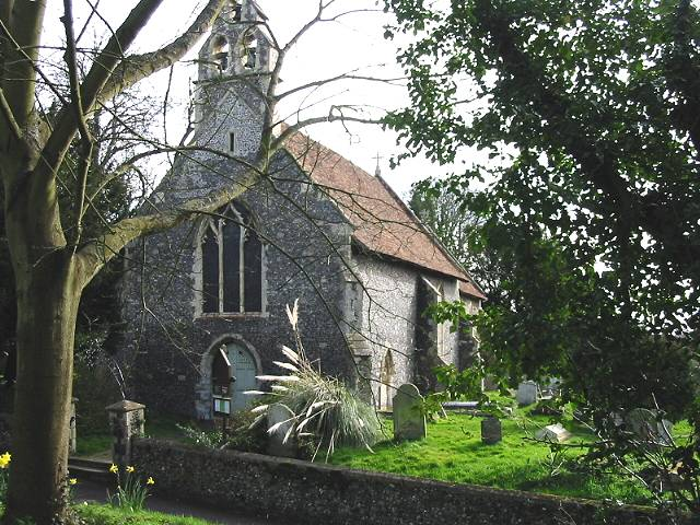 All Saints' parish church, Westbere, Kent, seen from the west